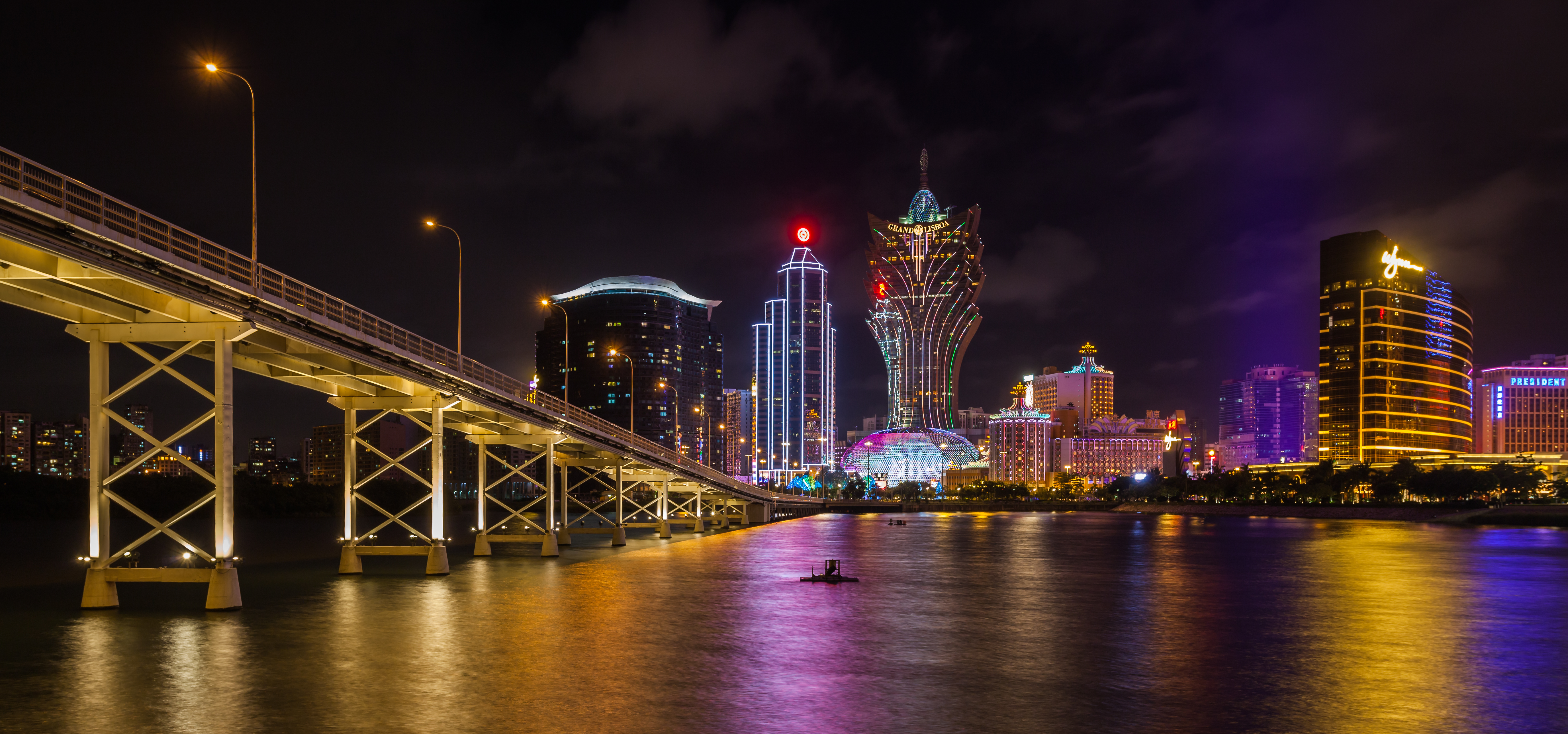 Lake Nam Van, Macau